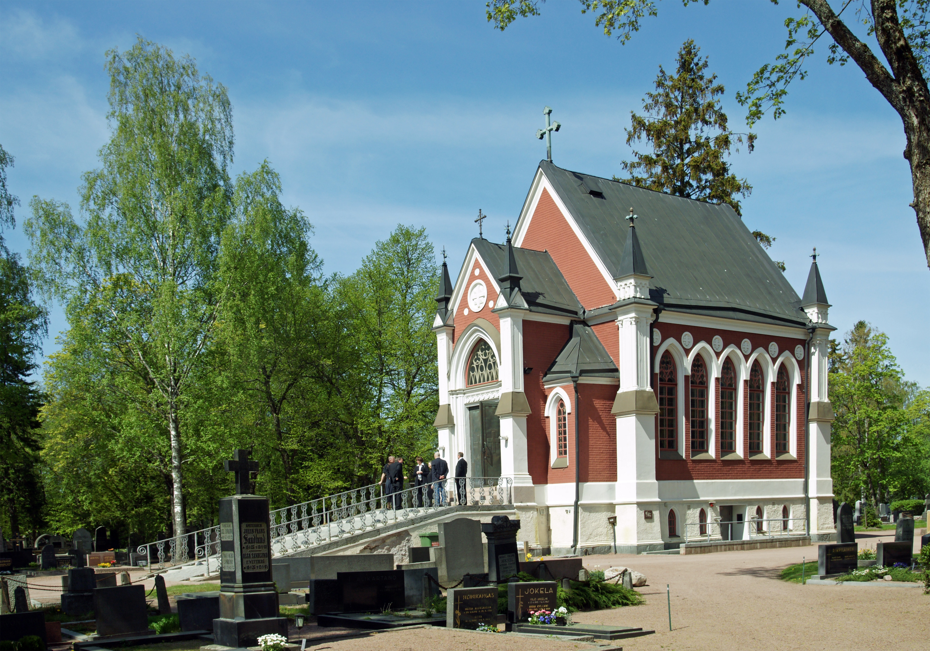 Small chapel of Käppärä in Pori, Finland.